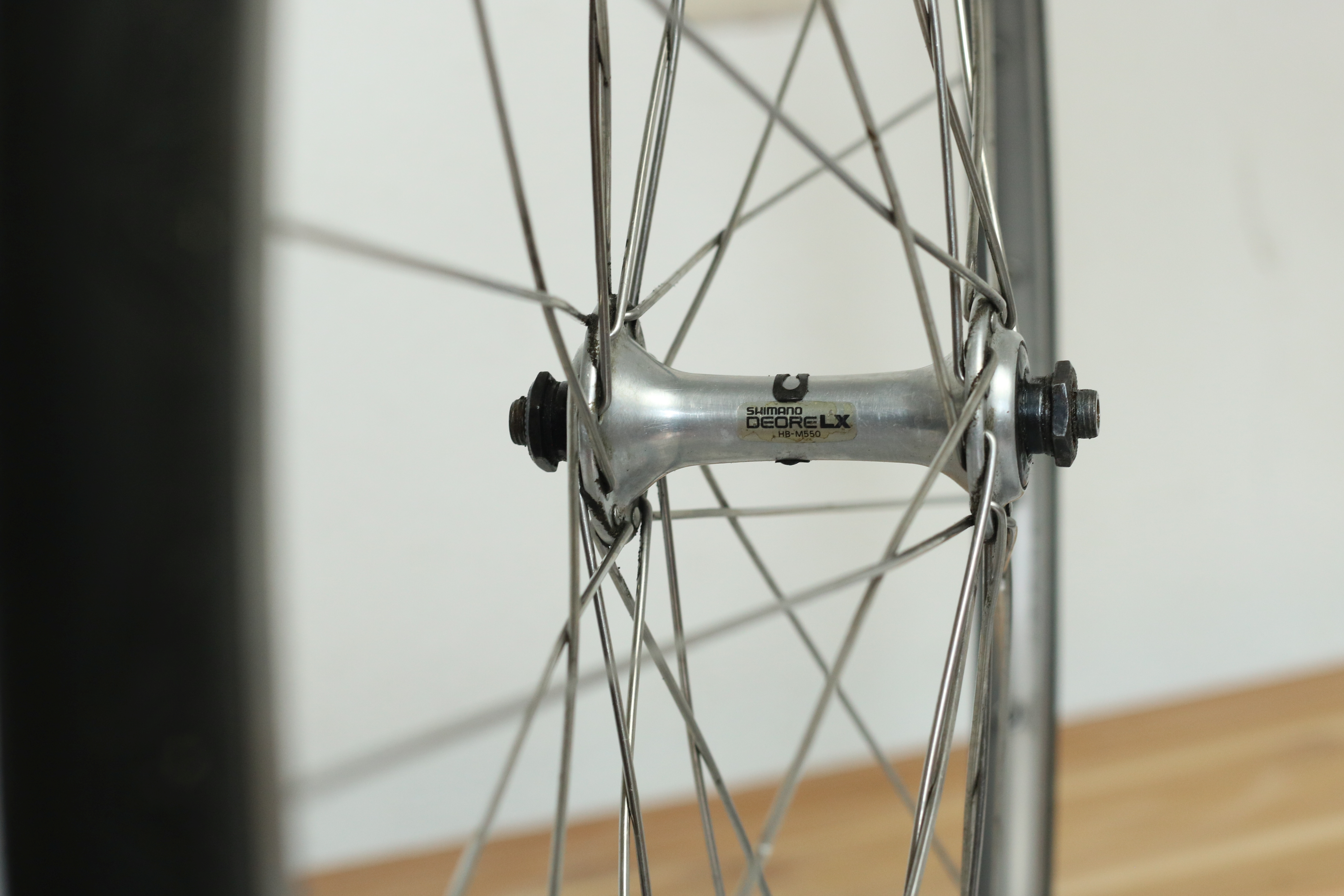 Front Wheel Shimano LX